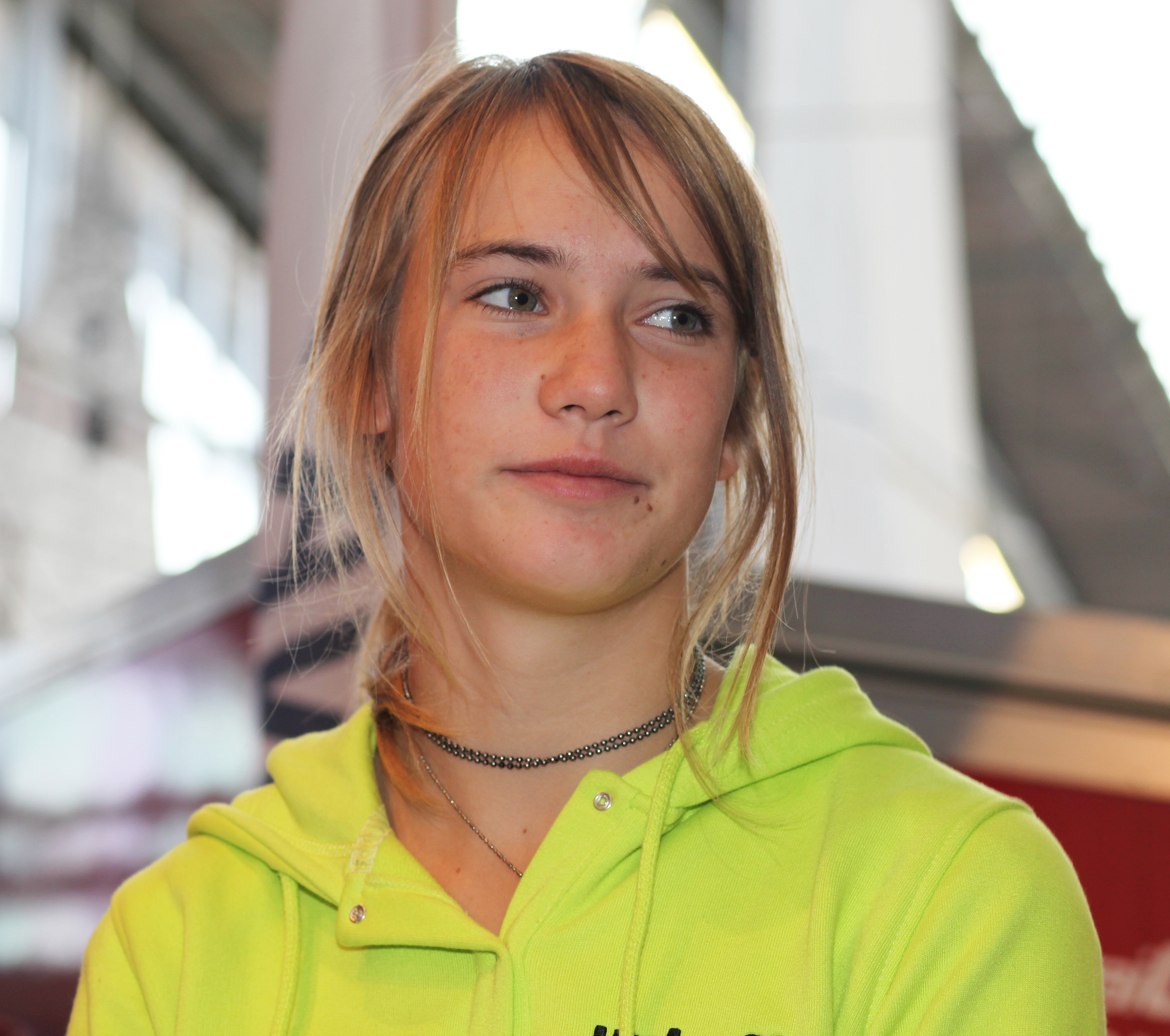 Laura Dekker, speaking at the Hiswa Boatshow, Amsterdam, The Netherlands.